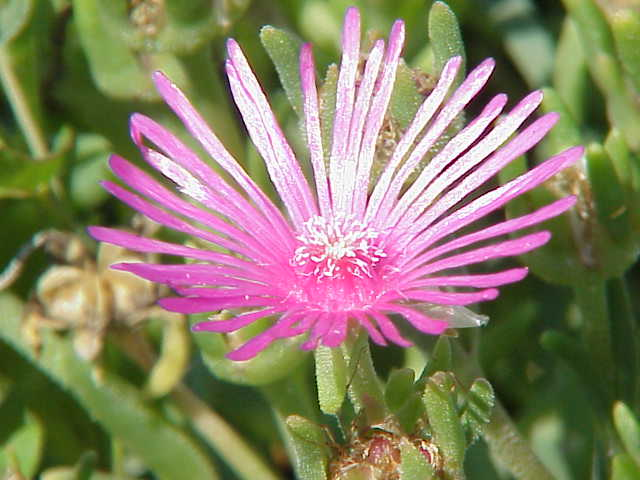 Species: Delosperma cooperi Family: Aizoaceae Image No. 2